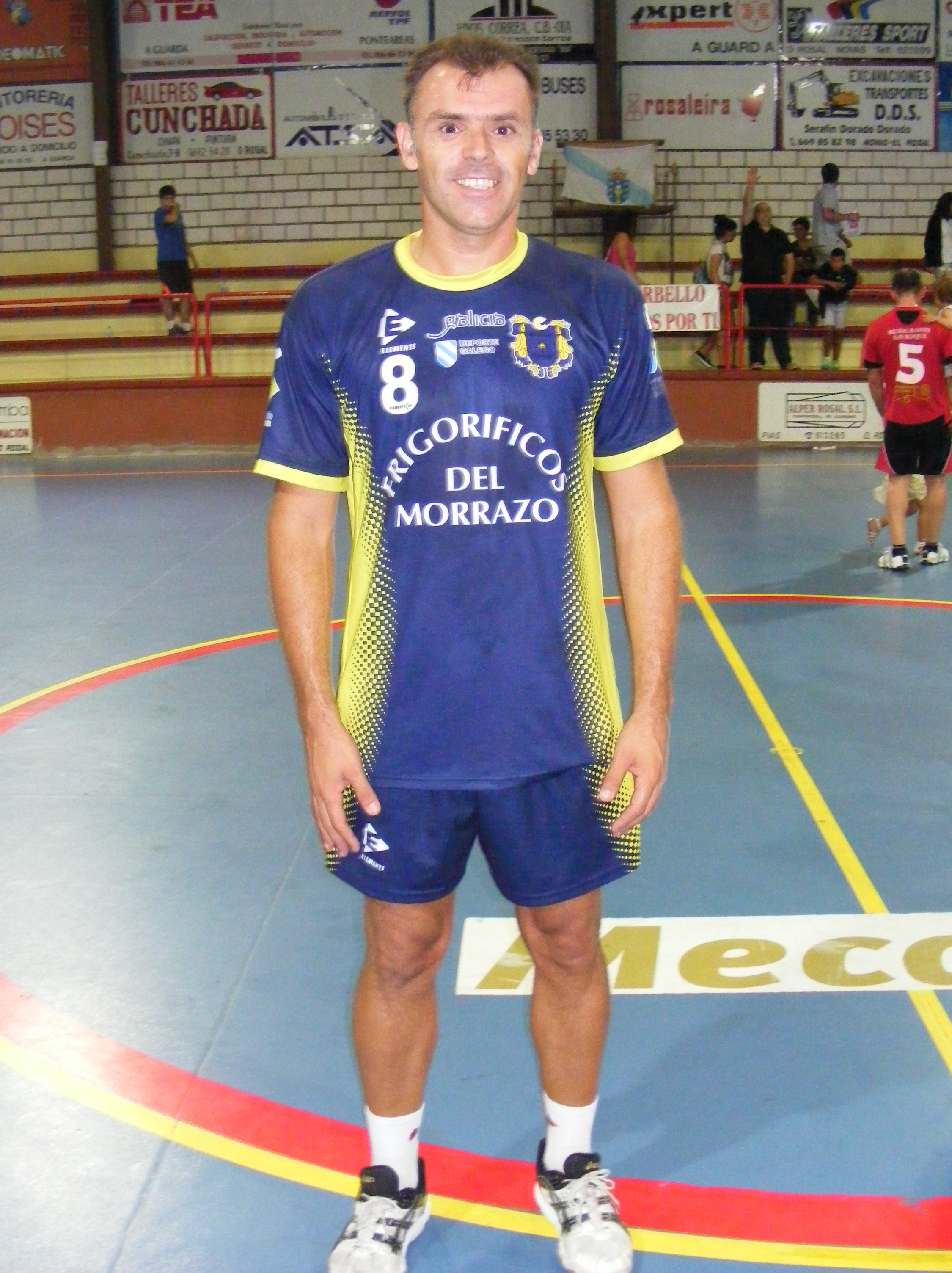 In the Torneo do Rosal 2013, Suso Soliño Spanish handball player.